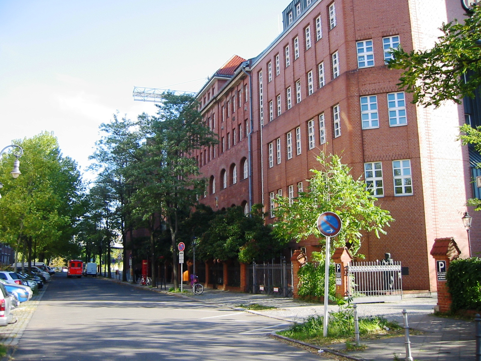 Trebbiner Straße in Berlin-Kreuzberg (Germany)